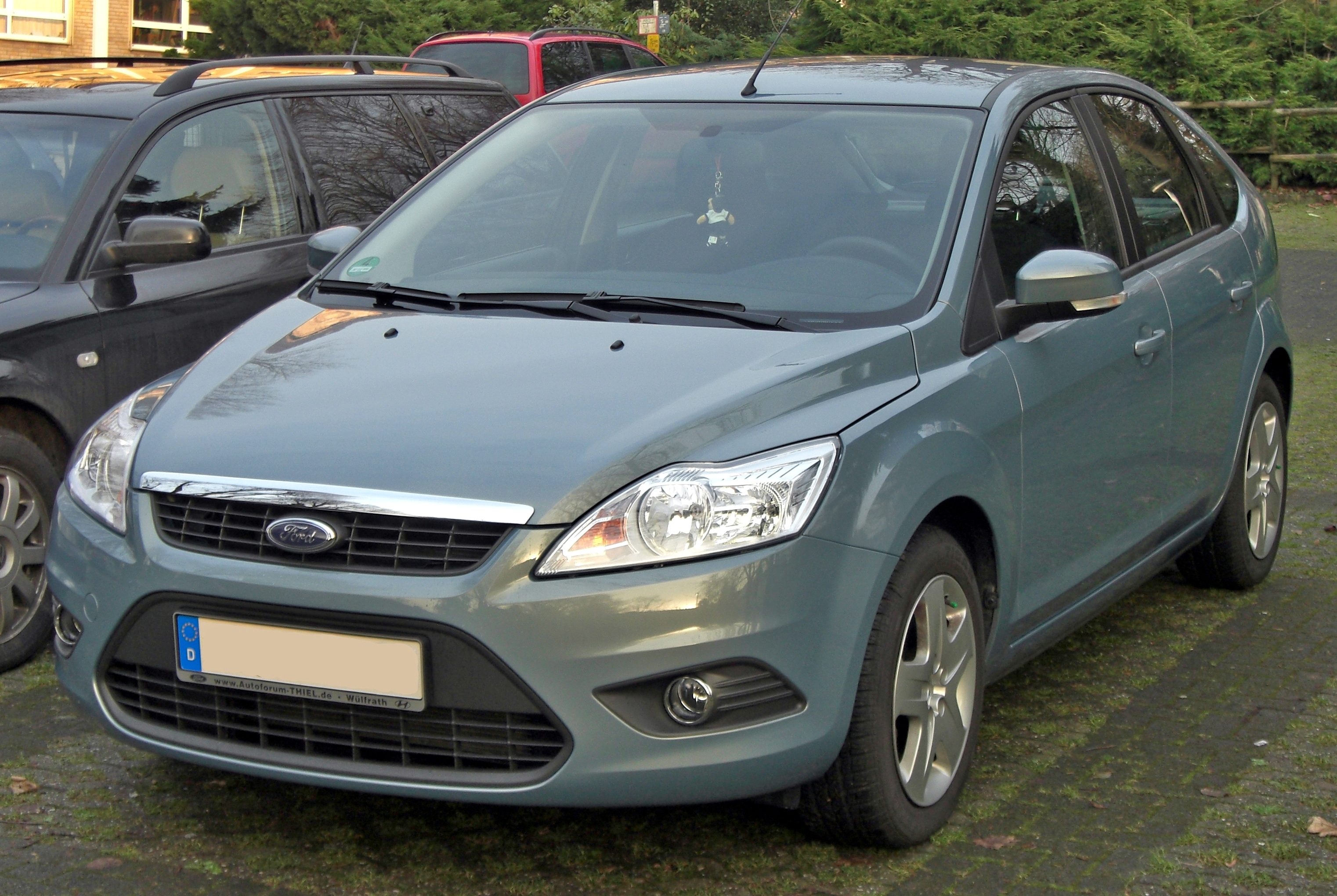 Description: Ford Focus Mk2 Facelift Source: Matthias Other Version(s)